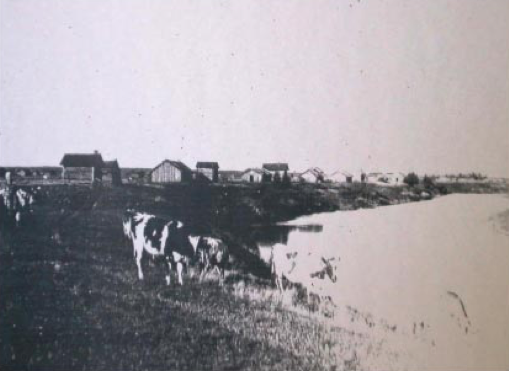 Photo by Paavo Fossi